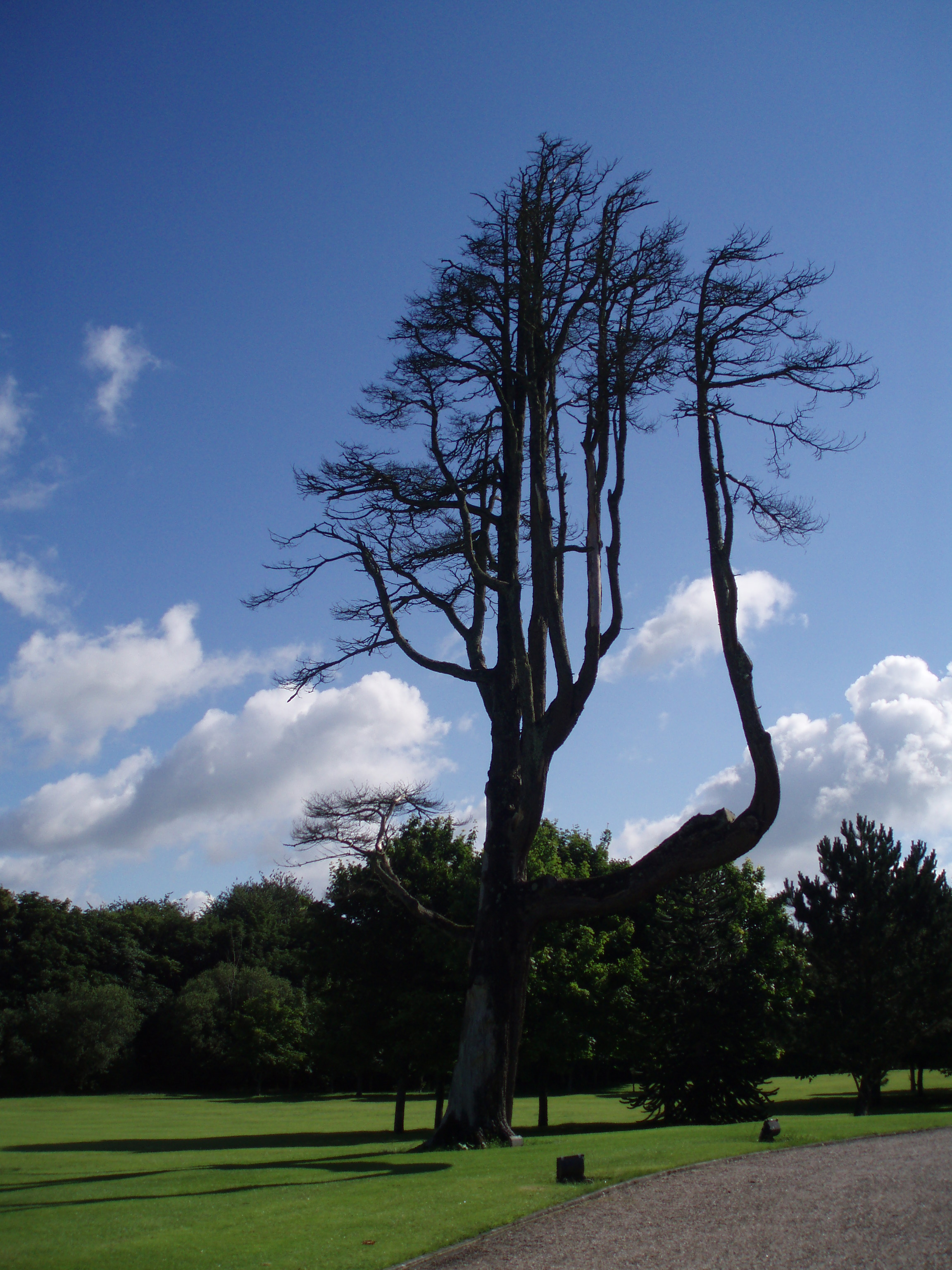 View of the campus at the University of LImerick